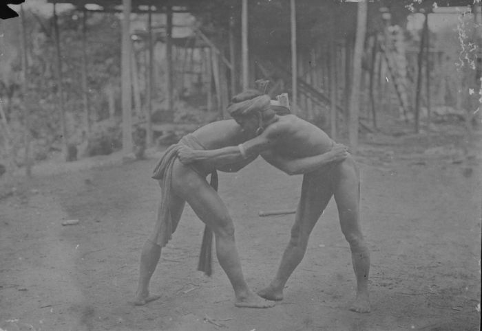 Two Bahau-Dayak men wrestling, Central-Borneo.